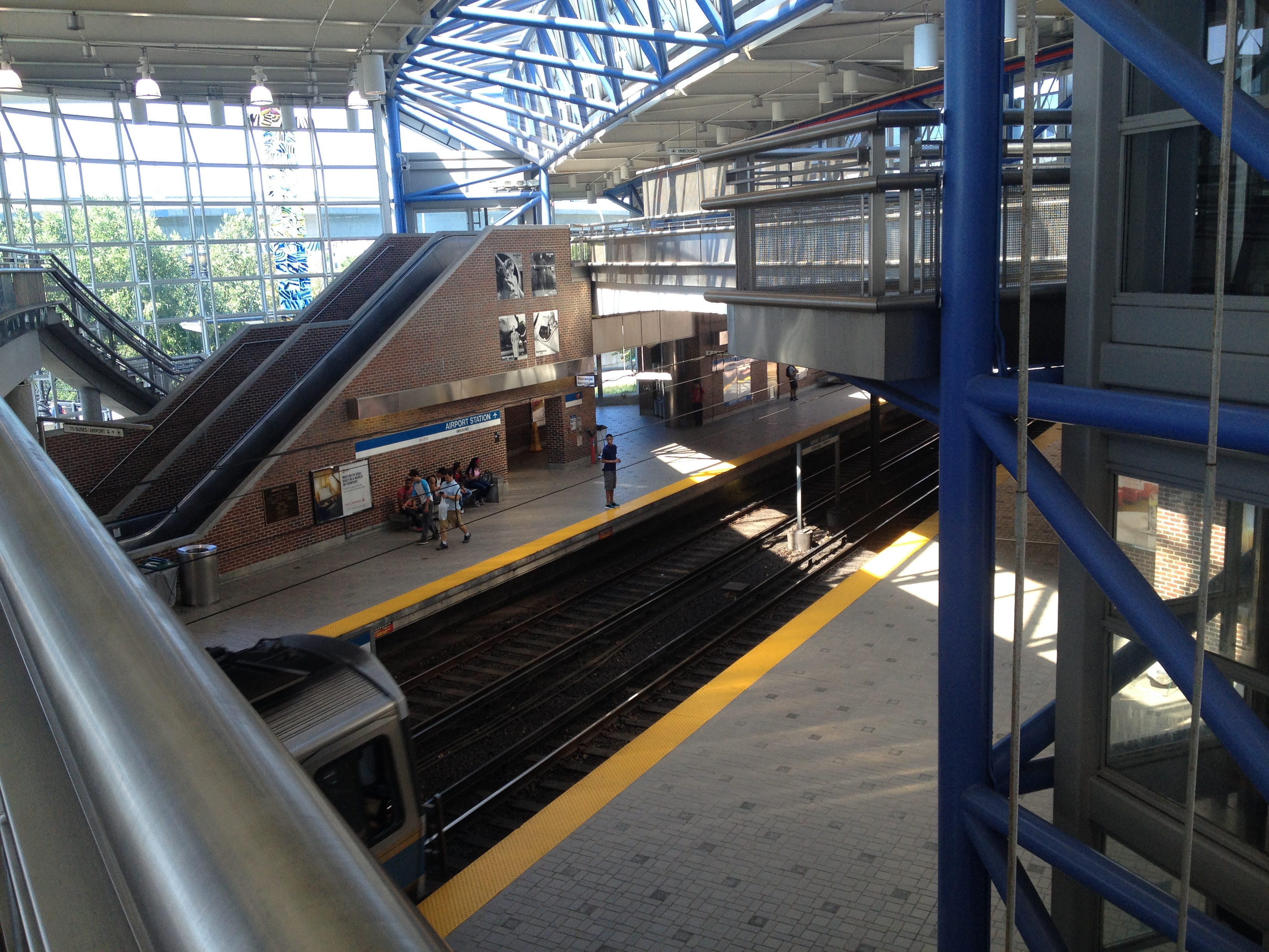 Inside the Airport MBTA Station at Boston's Logan International Airport, with Blue Line train arriving. Viewed from no-fare overpass to Bremen St.